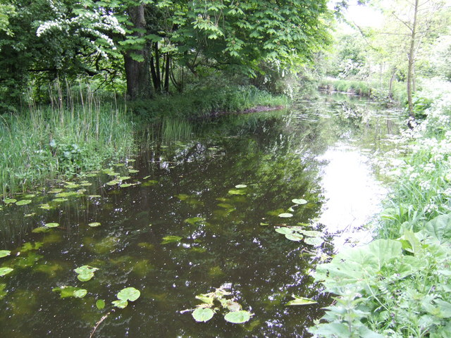 Channel of the Boyne This canal-like stretch runs parallel to the main river around the big bend west of Drogheda.